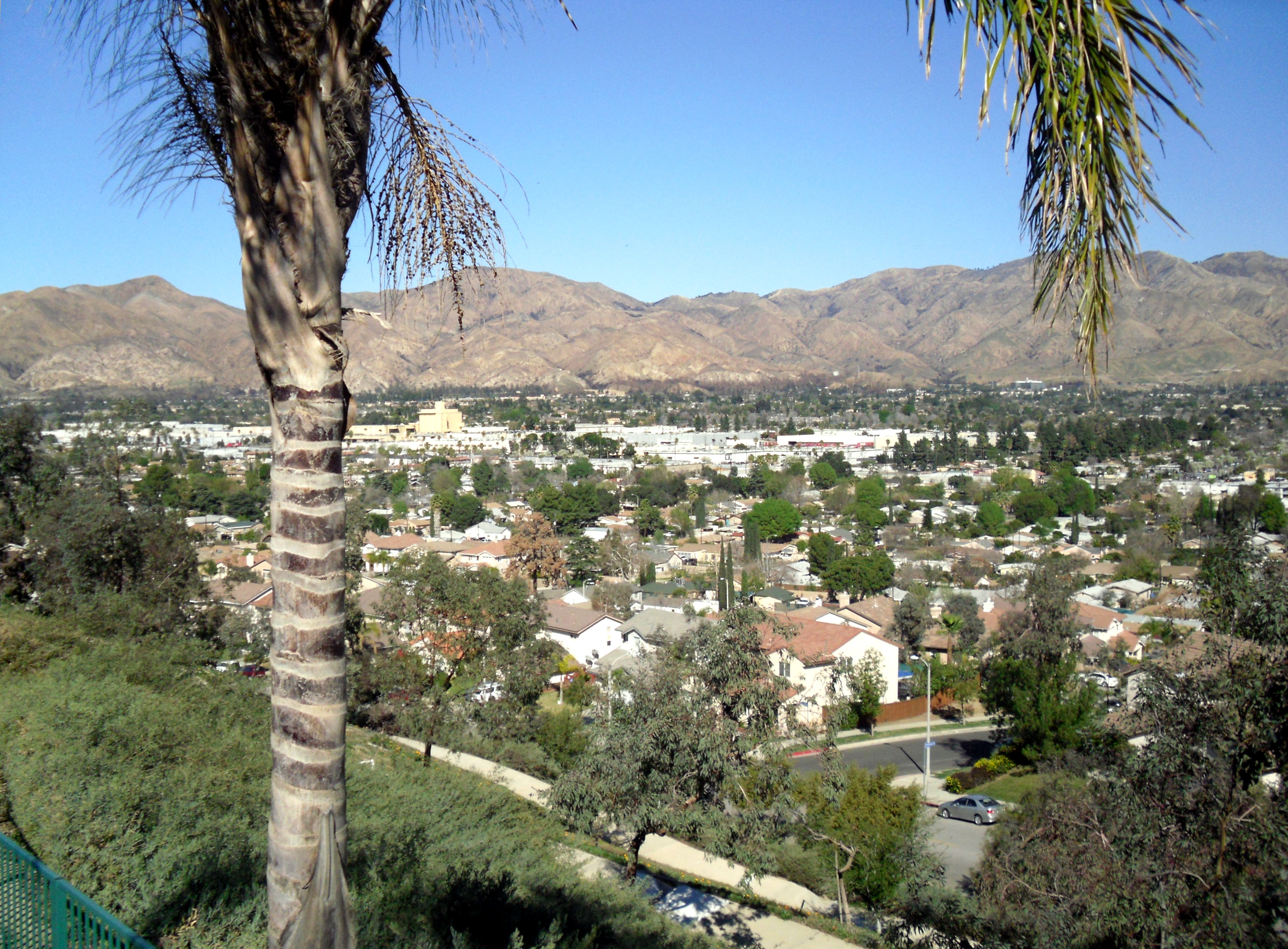 View of Sylmar facing the San Gabriel Mountains to the North from the Carey Ranch neighborhood. Samuel J. Kirby